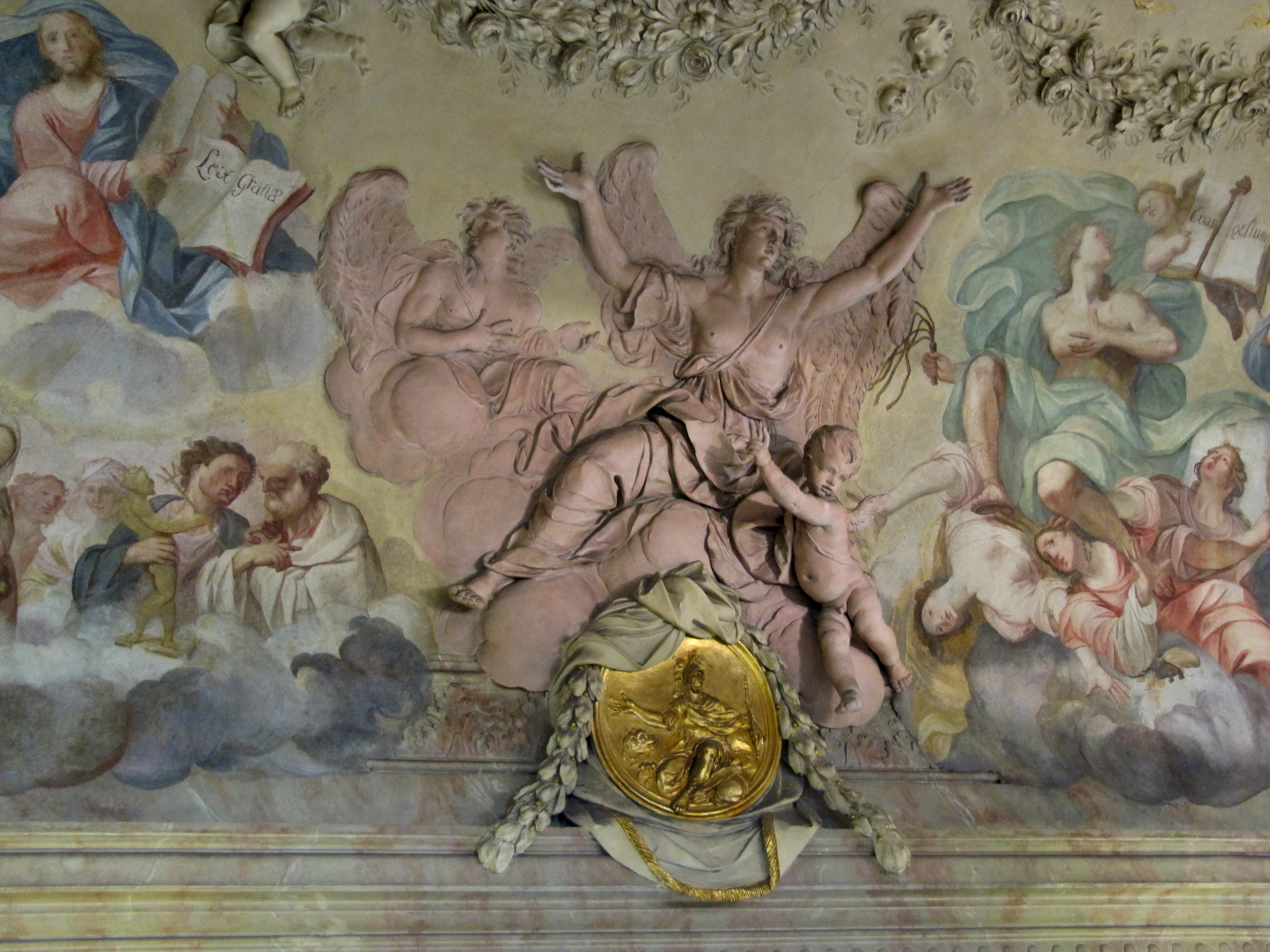 Olomouc, Czech Republic. Hradisko Monastery.